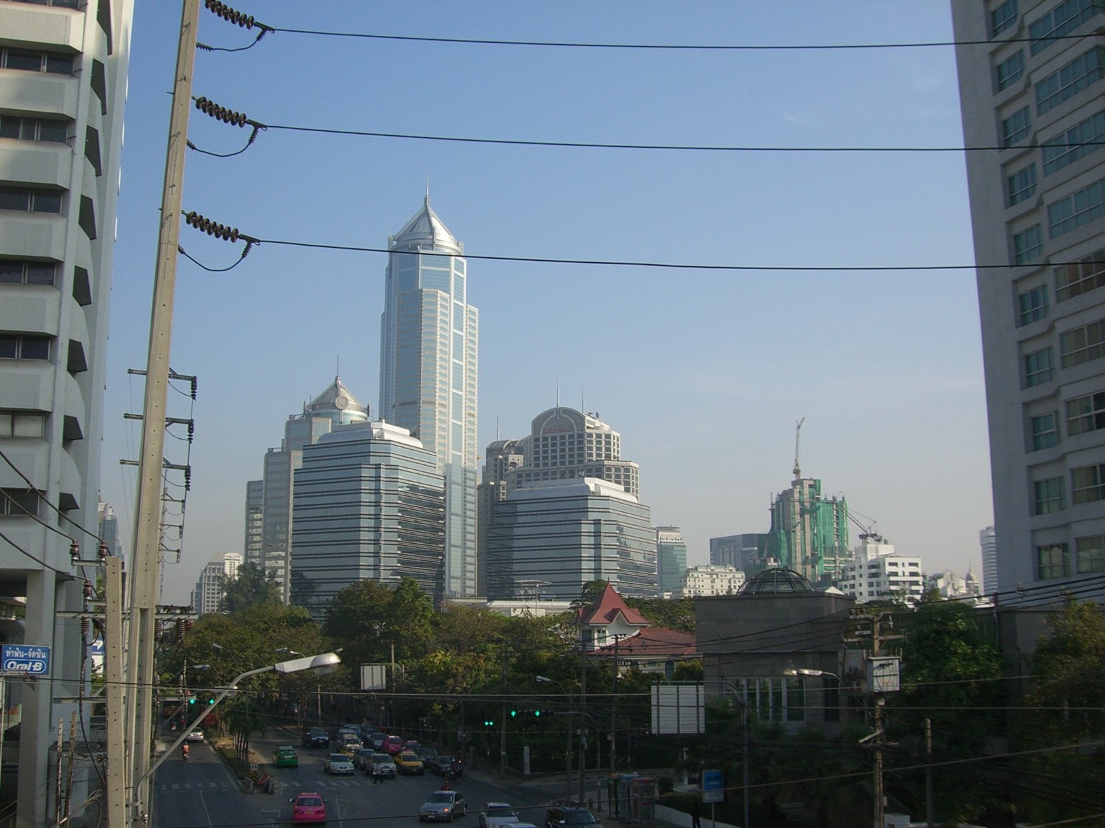 Wireless Road view from flyover Witthayu or Wireless Road in Bangkok, viewed from the junction at the corner of Lumphini Park